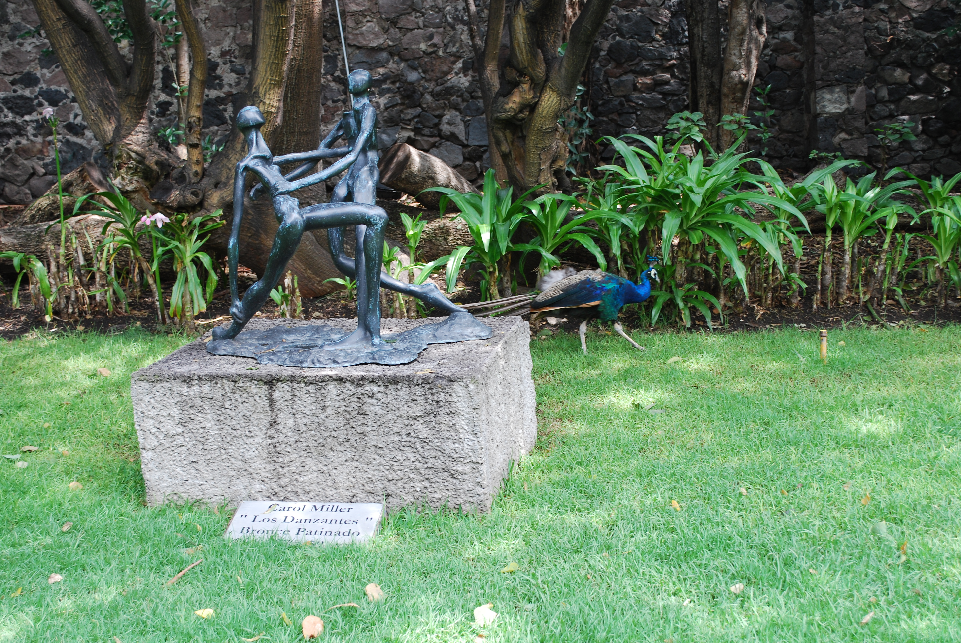 Sculpture Los Danzantes by Carol Miller on the grounds of the Museo Dolores Olmedo in Mexico City